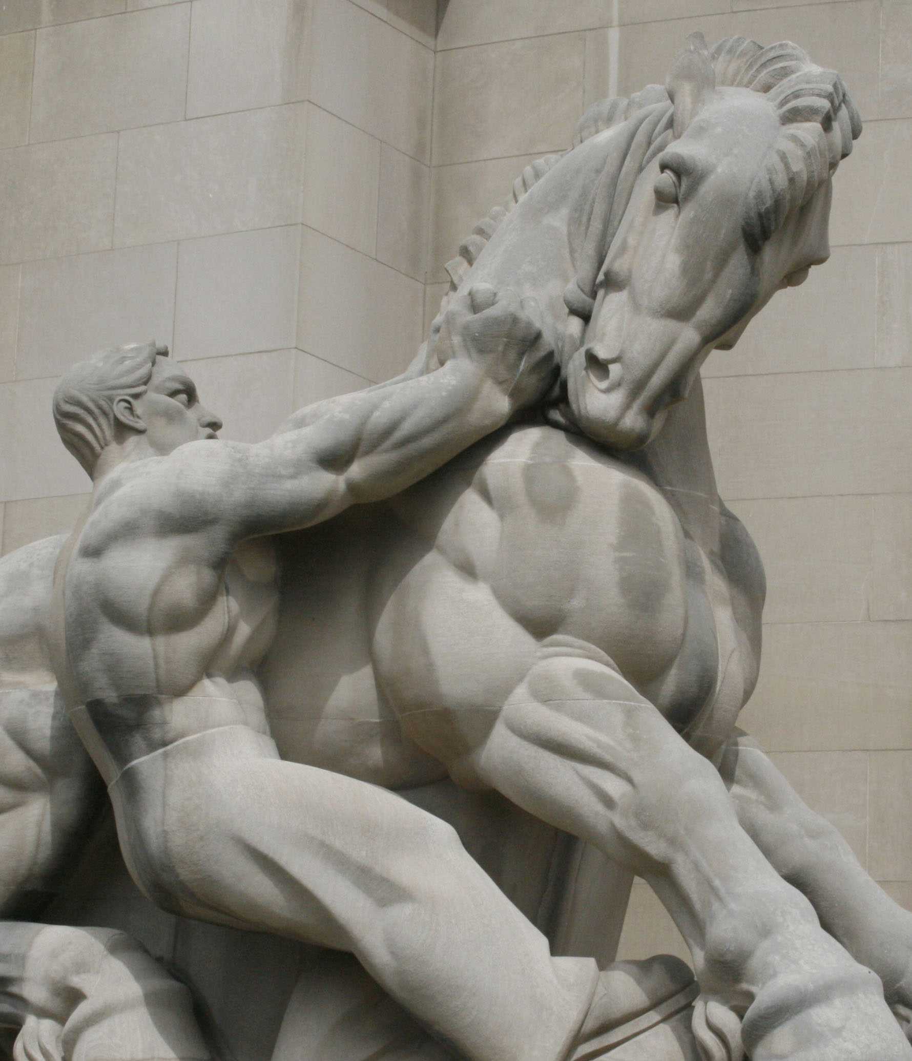 This sculpture, one of a pair found outside of the Federal Trade Commission Building, is entitled "Man Controlling Trade" and was completed for the FTC Building in 1942 by New York sculptor Michael Lantz. Michael Lantz designed the sculptures in the Art Deco style. In each, a muscular man holds a rearing stallion, symbolizing the enormity of trade and the government in its role as enforcer. The sculptures have become the agency’s informal logo.